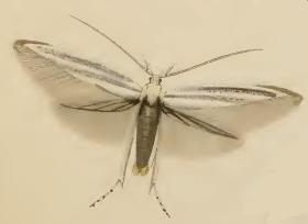 Stainton’s Natural History of the Tineina (1855–1873): Coleophora anatipennella